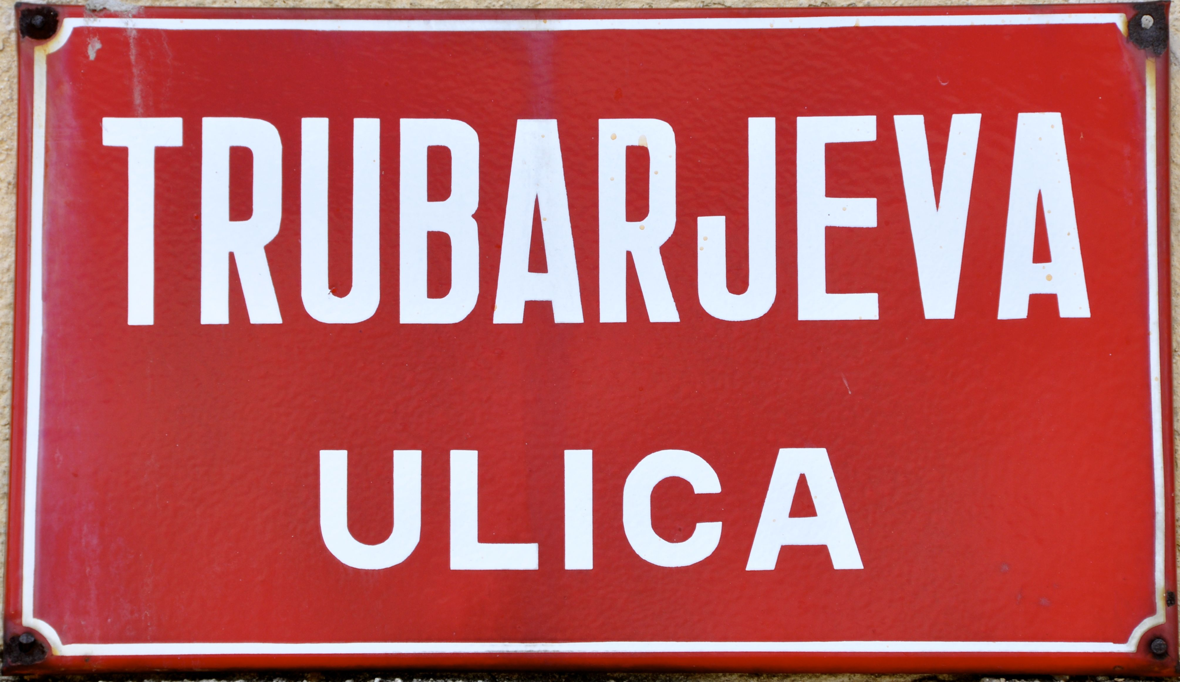 Street sign of Trubarjev Street in Radovljica, municipality Radovljica / Upper Carniola / Slovenia / EU